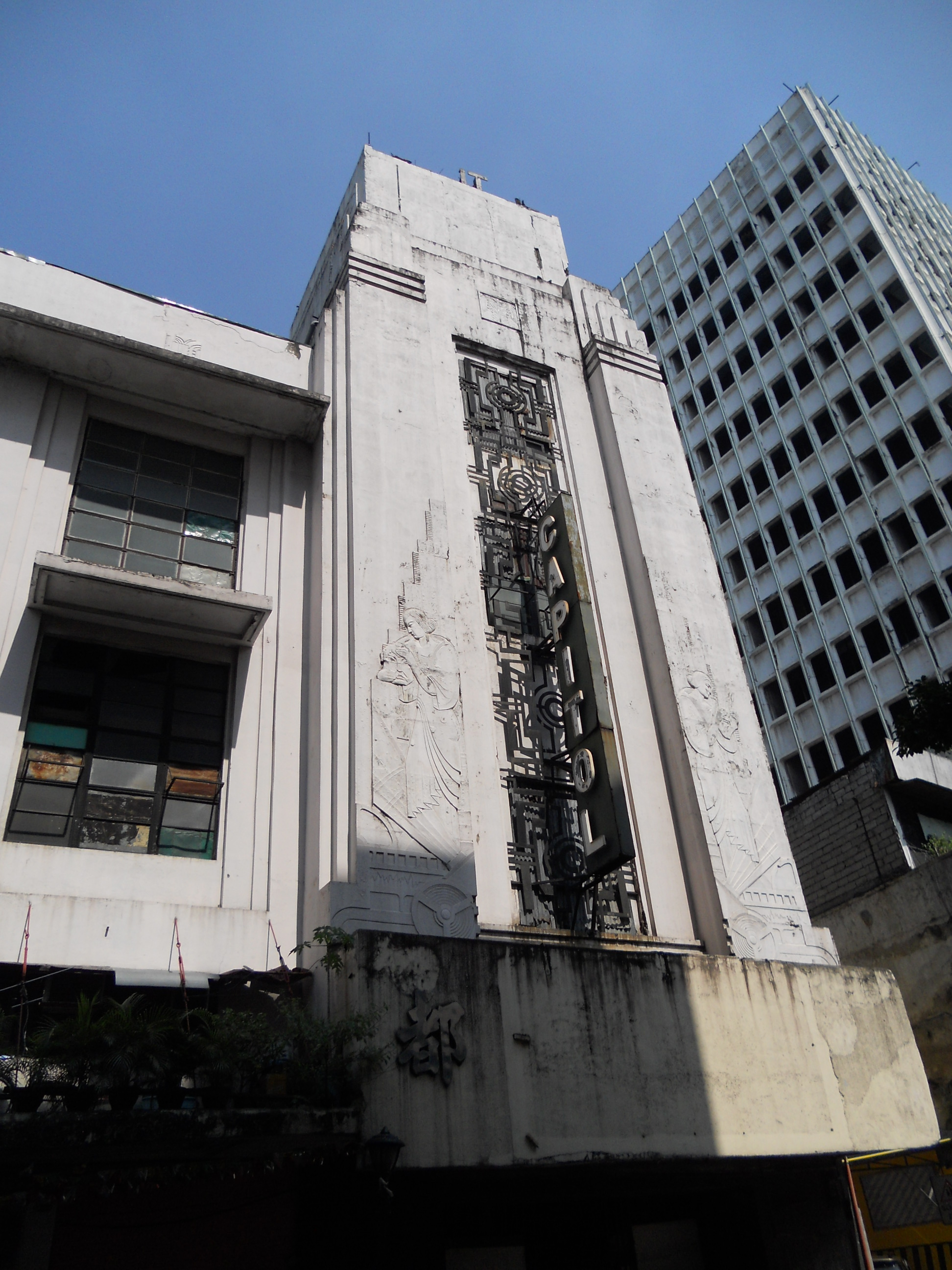 Capitol Theater, Escolta